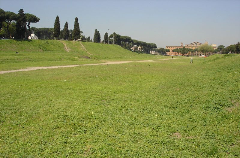 Circus Maximus